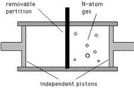 N-atom vacuum-pump memory: A symmetric bi-partitioned cell for the isothermal compression of an N-atom ideal gas into either its left or right half, perhaps first discussed by Leó Szilárd, which serves as a physical system about whose state mutual information is available for a well-defined price in free energy. If one is further provided with some mechanism (e.g. spectroscopic) for reading its state in the one-atom case, it may also serve as an efficient mechanically-operated single-bit memory. The "setting" process involves removing the barrier between compartments, using the piston on one side to relocate all atoms into the opposite half and then returning the barrier before returning the piston to its original position. The required work is W = NkT ln[2]. It's reset status may be defined as true if we know that the atoms are located in the right half of the container, and false if we don't know this to be the case.